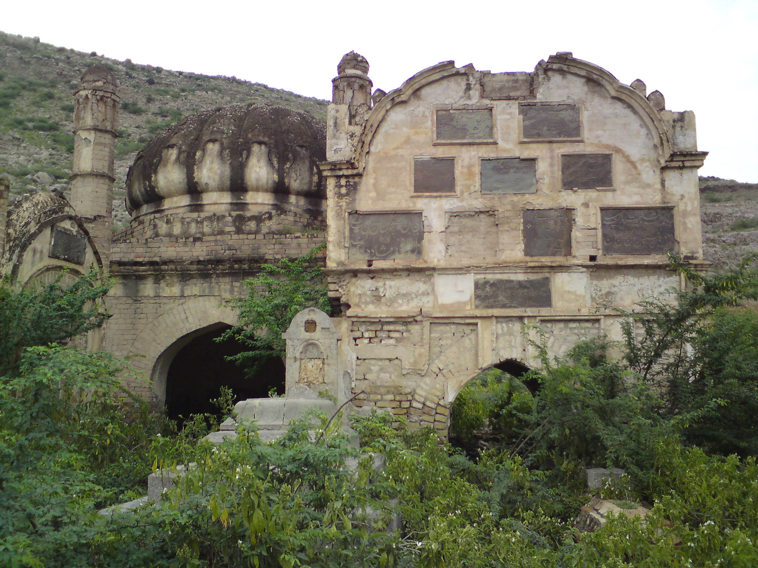 picture taken in shahpur area.kohat,pakistan